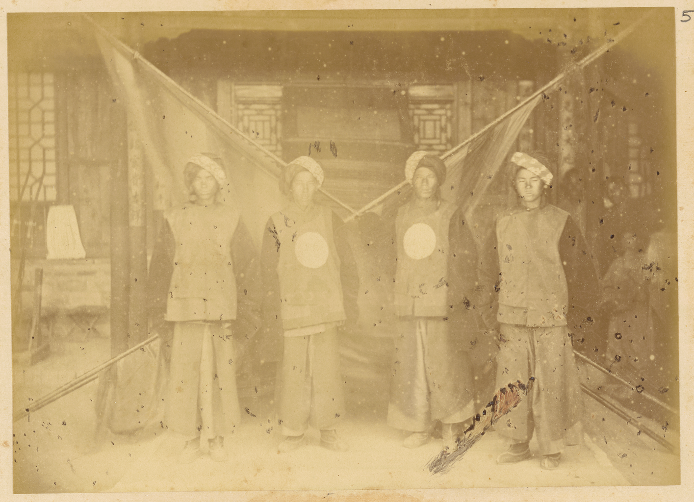 In 1874-75, the Russian government sent a research and trading mission to China to seek out new overland routes to the Chinese market, report on prospects for increased commerce and locations for consulates and factories, and gather information about the Dungan Revolt then raging in parts of western China. Led by Lieutenant Colonel Iulian A. Sosnovskii of the army General Staff, the nine-man mission included a topographer, Captain Matusovskii; a scientific officer, Dr. Pavel Iakovlevich Piasetskii; Chinese and Russian interpreters; three non-commissioned Cossack soldiers; and the mission photographer, Adolf Erazmovich Boiarskii. The mission proceeded from Saint Petersburg to Shanghai via Ulan Bator (Mongolia), Beijing, and Tianjin, and then followed a route along the Yangtze River, along the Great Silk Road through the Hami oasis, to Lake Zaysan, back to Russia. Boiarskii took some 200 photographs, which constitute a unique resource for the study of China in this period. Most of the photographs are included in this album, which later became part of the Thereza Christina Maria Collection assembled by Emperor Pedro II of Brazil and given by him to the National Library of Brazil. Chinese; Memory of the World; Military uniforms; Soldiers; Weapons